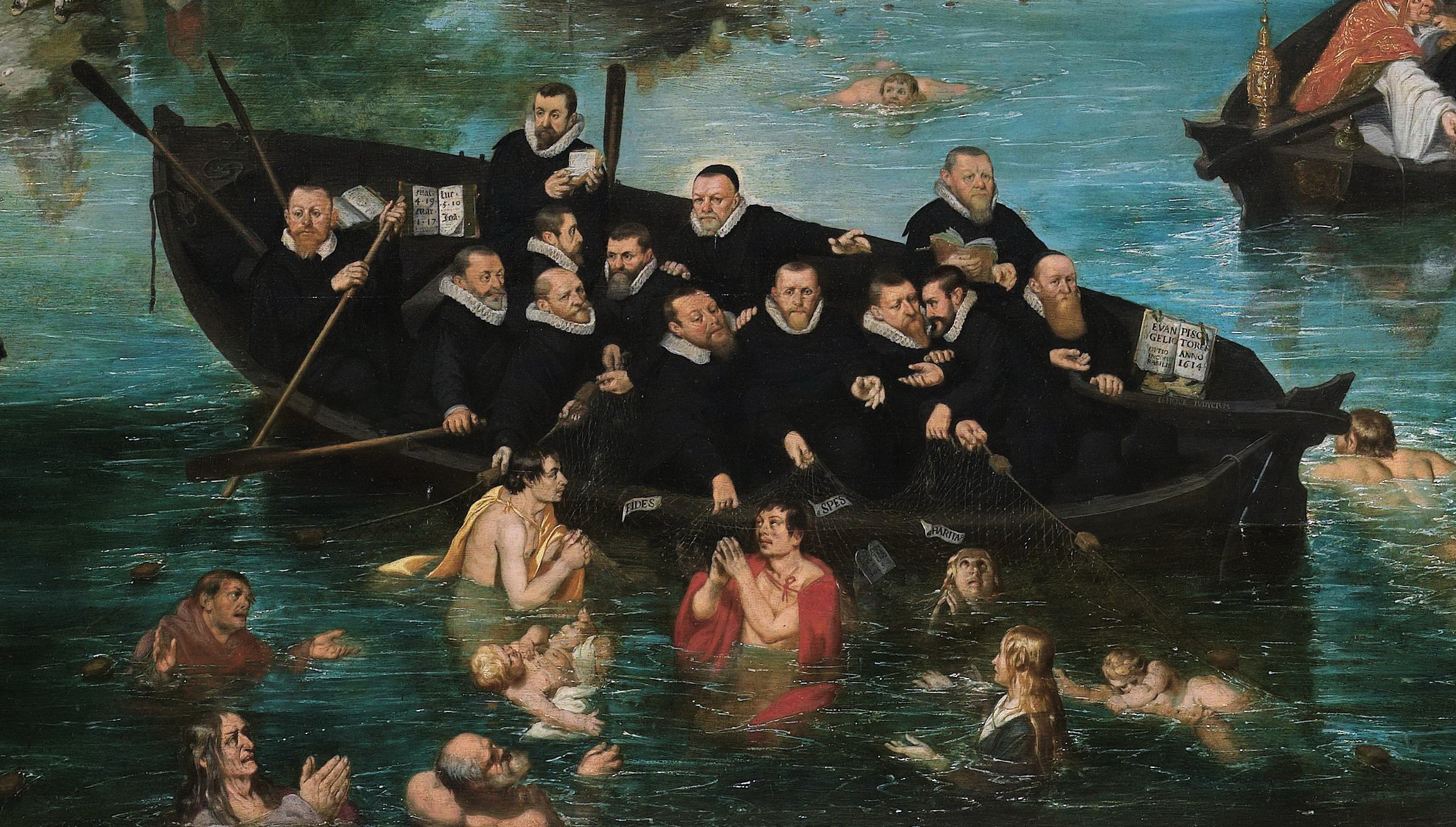 Fishing for souls: allegory of the jealousy between the various religious denominations during the Twelve Years Truce between the Dutch Republic and Spain.[1]